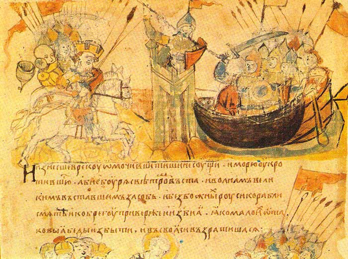 Radzivill chronicle. Siege of Constantinopol in 866